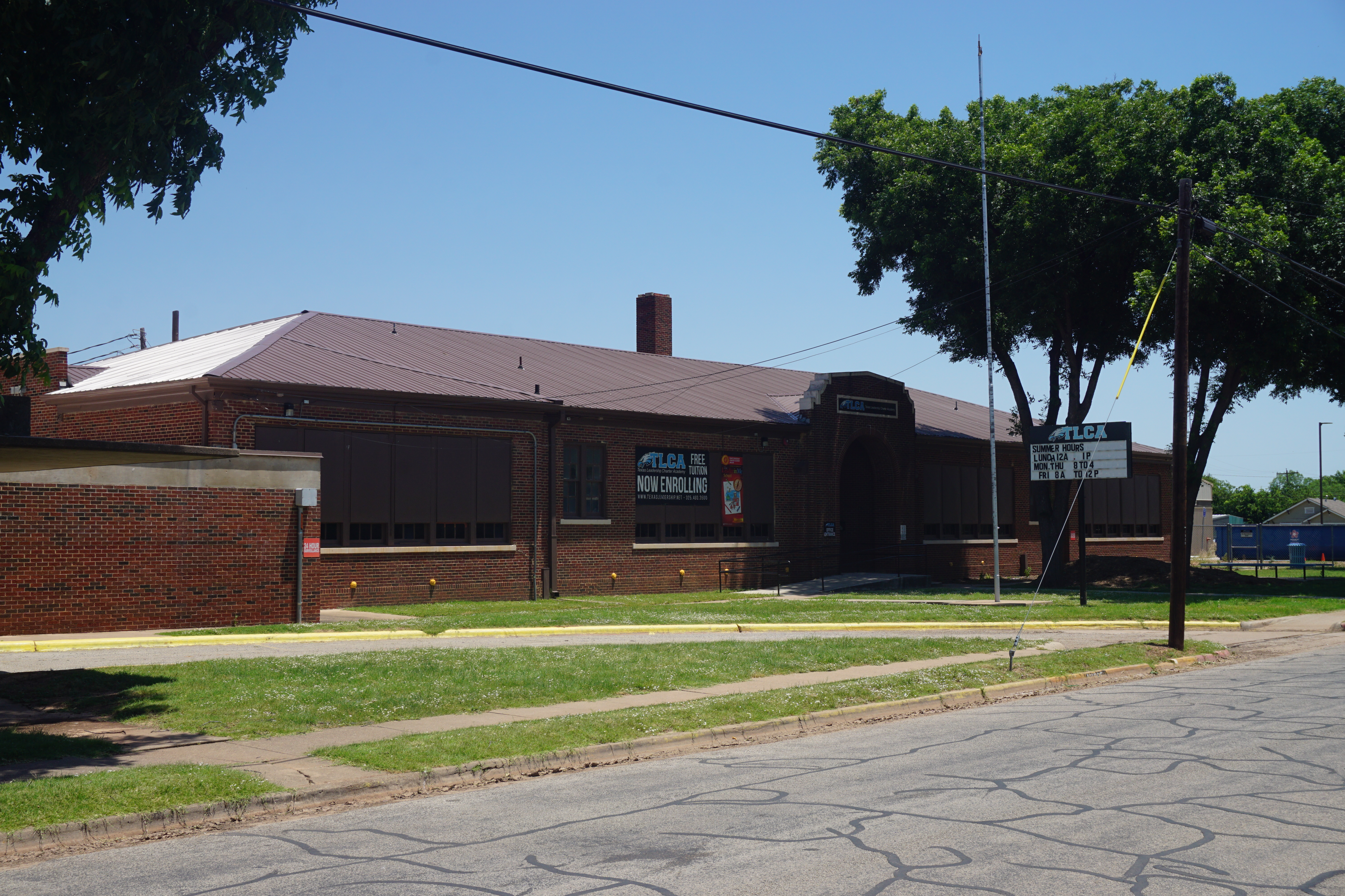 The Texas Leadership Charter Academy in Abilene, Texas (United States).